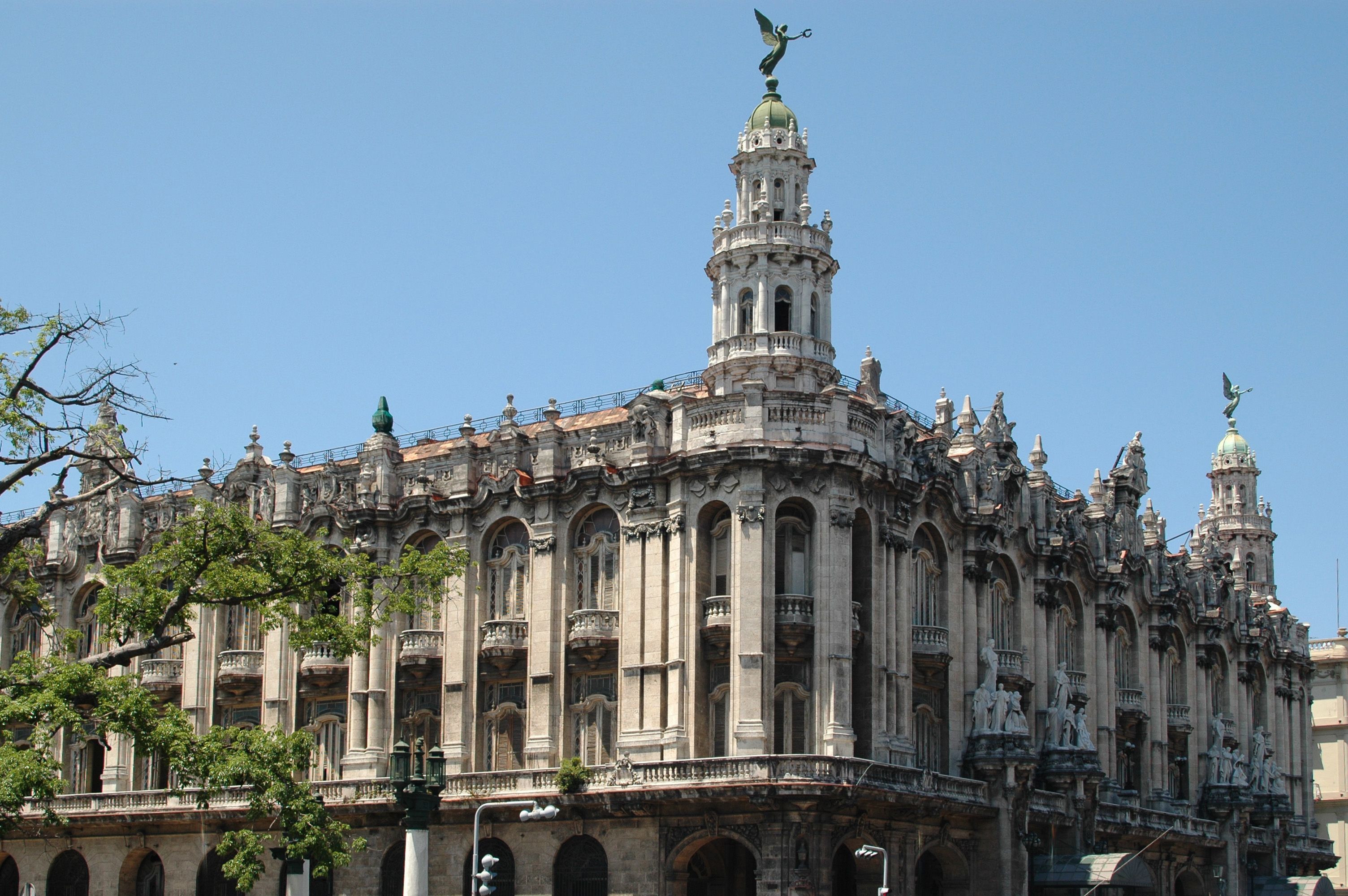 Cuba Havana Gran Teatro de la Habana